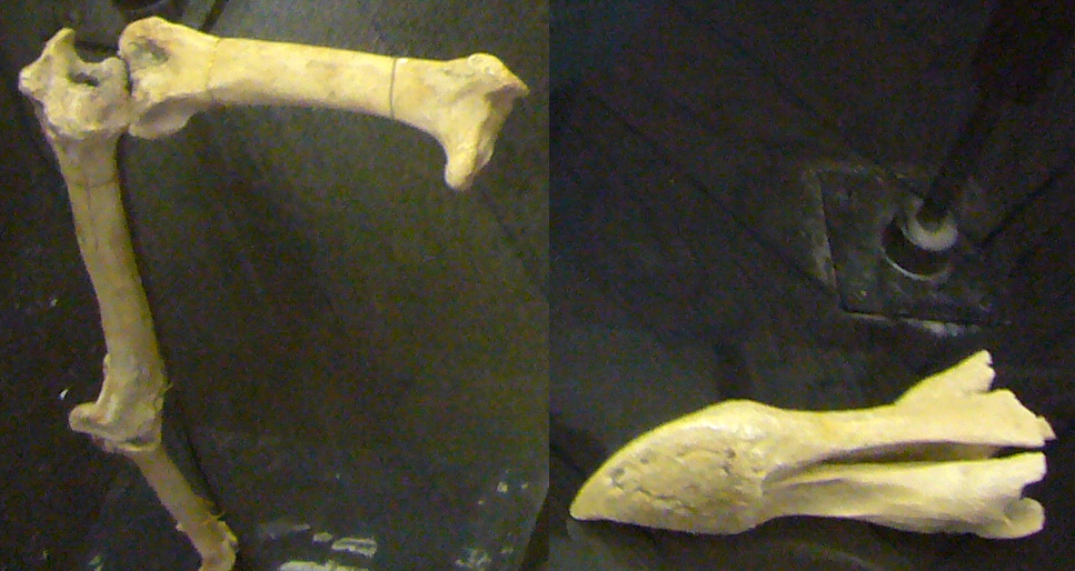 Subfossil leg bones of a Rodrigues solitaire and skull fragments of a dodo taken to Europe in the 17th century, National Museum of Prague.